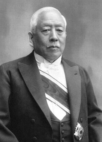 Cropped photograph of former Japanese Prime Minister Makoto Saitō